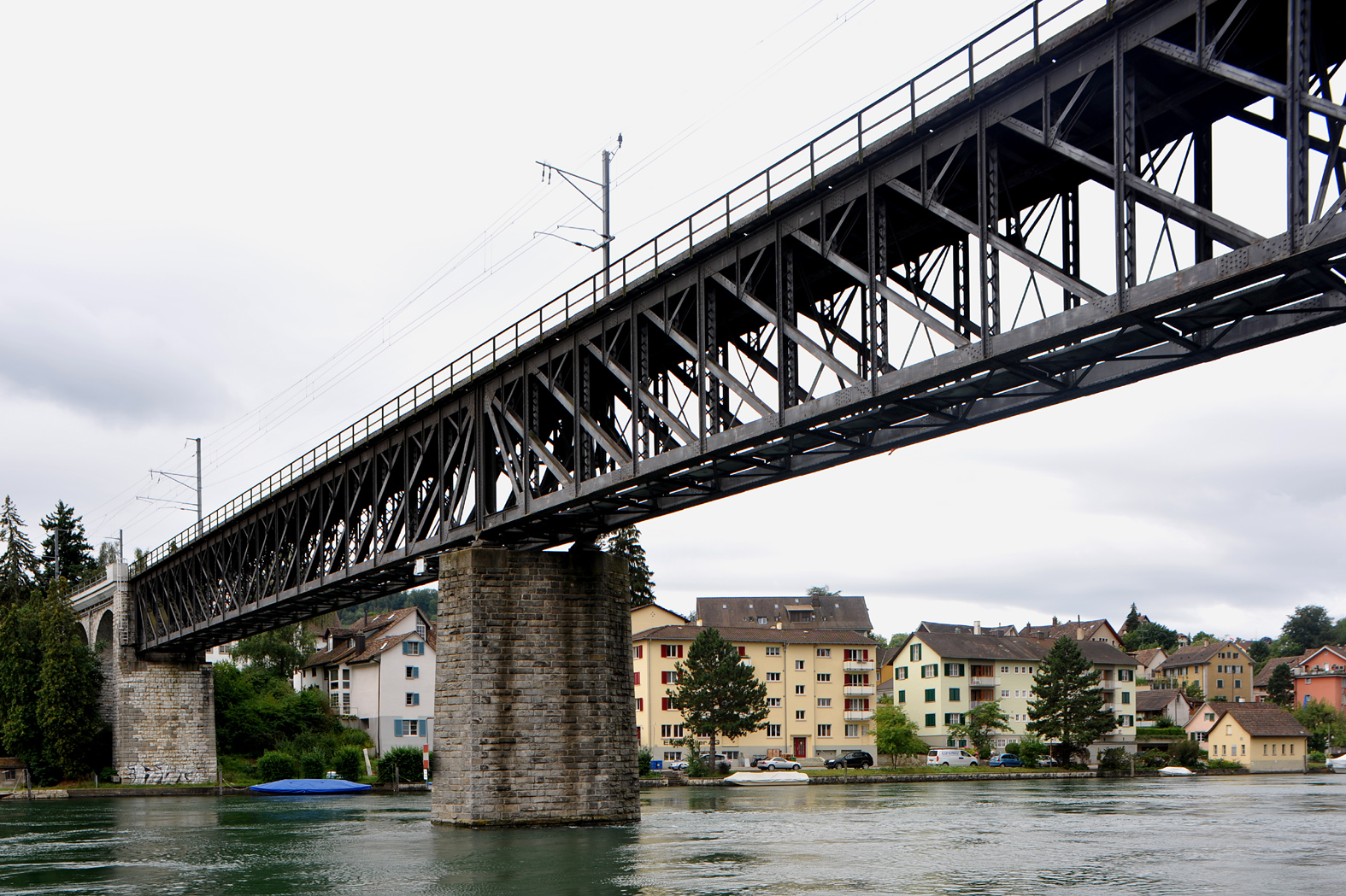 Railway bridge between Schaffhausen and Feuerthalen; Schaffhausen and Zurich, Switzerland.